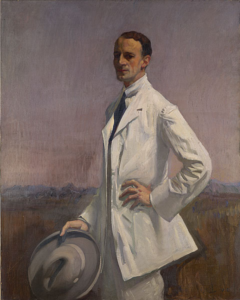 Portrait of William Alison Russell Esq, later (in 1924) to become the Chief Justice of Tanganyika. oil on canvas 127.7 (h) x 102.2 (w) cm frame 138.6 (h) x 125.0 (w) x 6.5 (d) cm signed and dated 'G.W.L.1910' lower right National Gallery of Victoria, Melbourne, bequest of Sir William Alison Russell in 1949